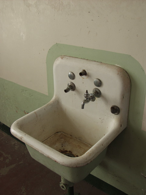 A sink at the Alcatraz Prison, San Francisco